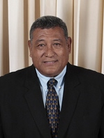 Tuvalu Prime Minister Apisai Ielemia in New York in 2009.